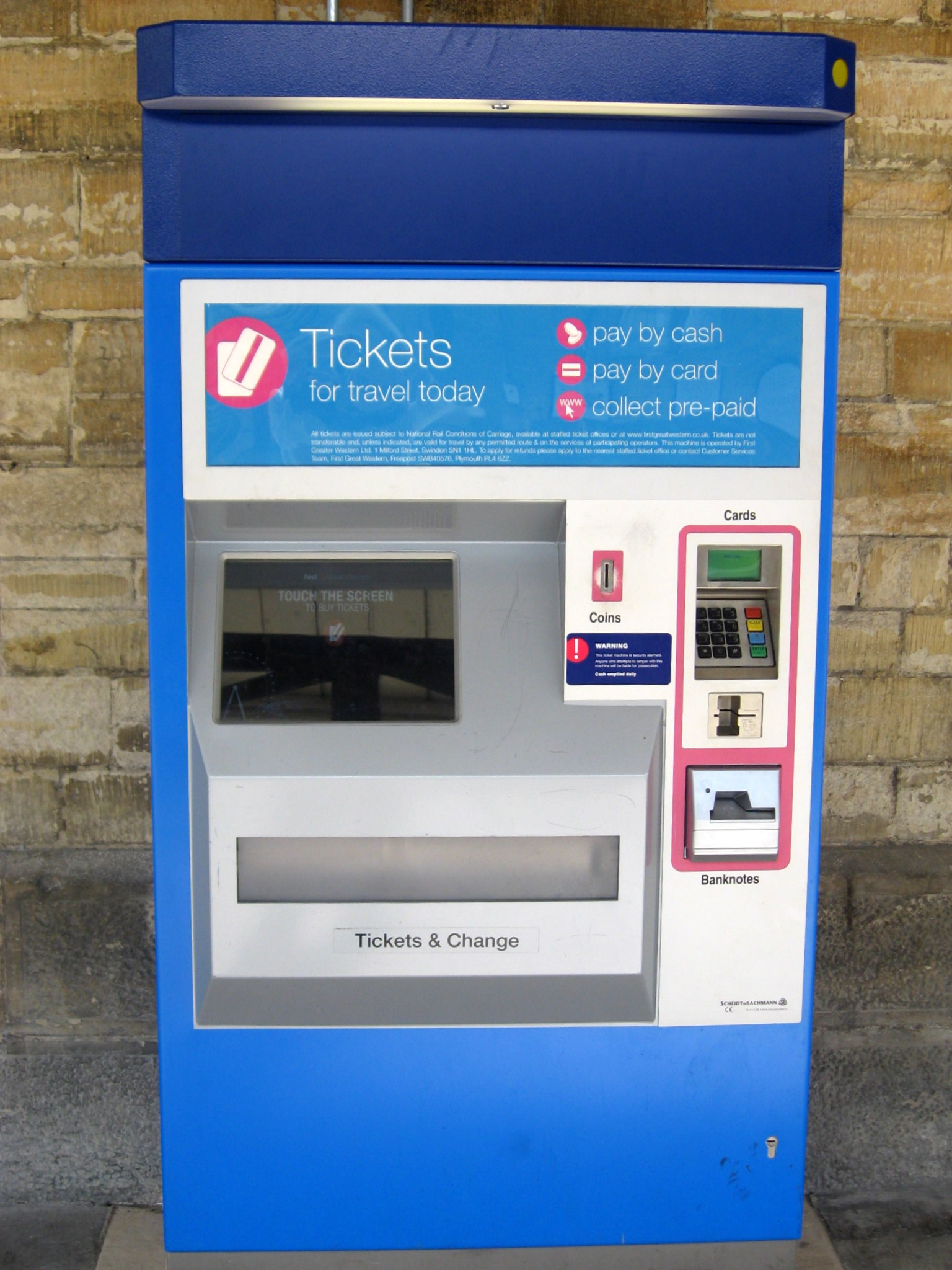 Ticket machine at Stroud, Gloucestershire station. Payment is by cash or card, and it also dispenses tickets ordered and paid for online.